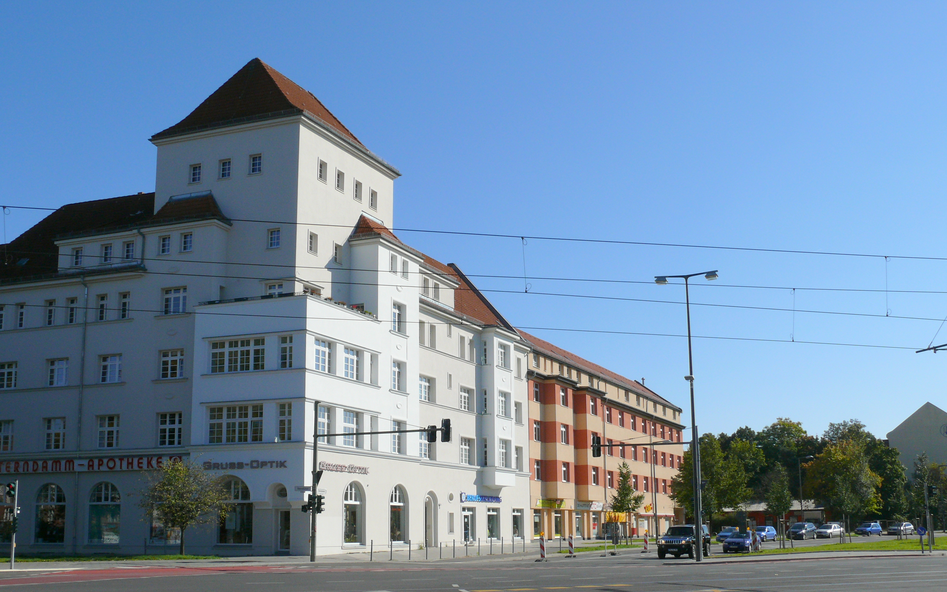 Berlin-Johannisthal Groß-Berliner Damm